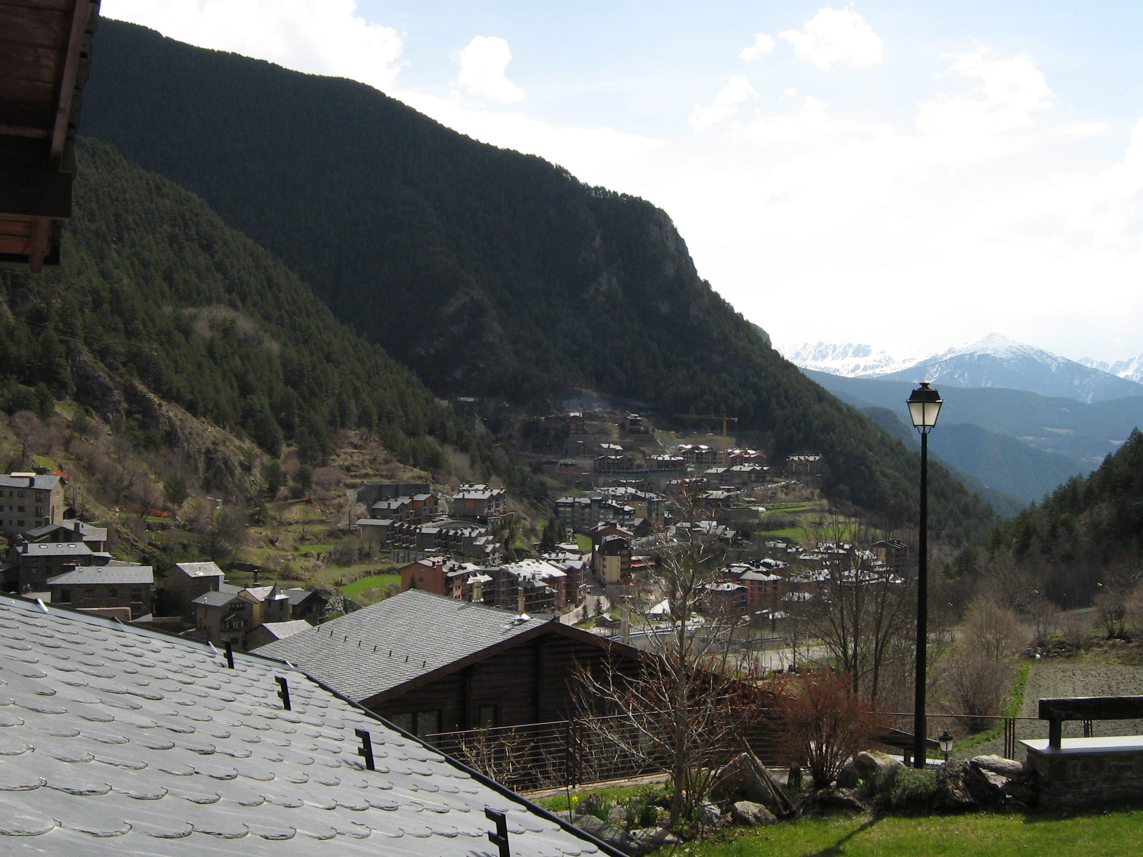 Arinsal, Andorra